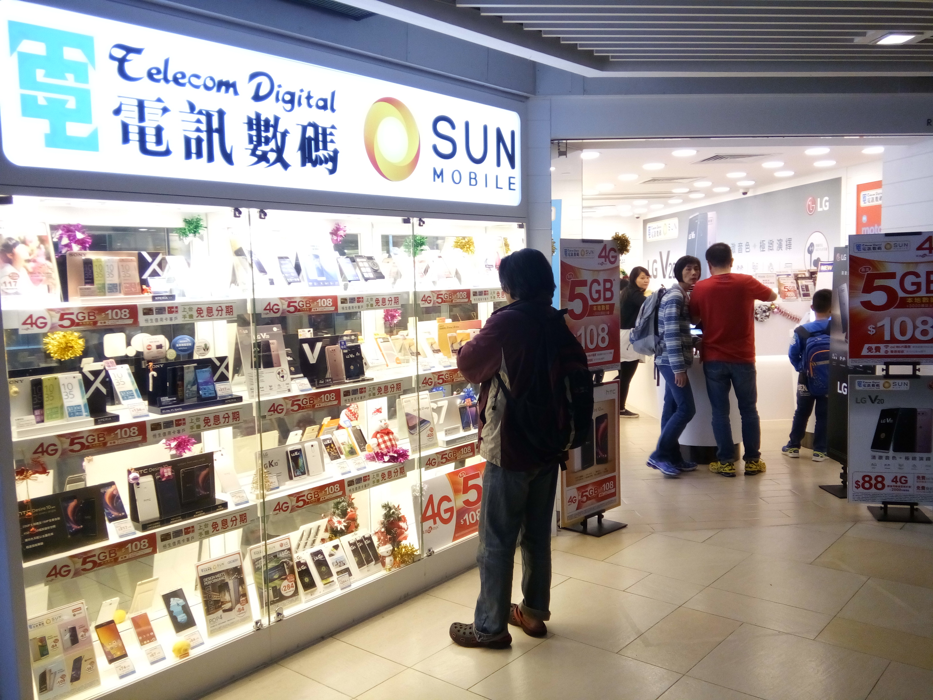 Sheung Shui 彩園邨, Choi Yuen Estate shop in Jan 2017